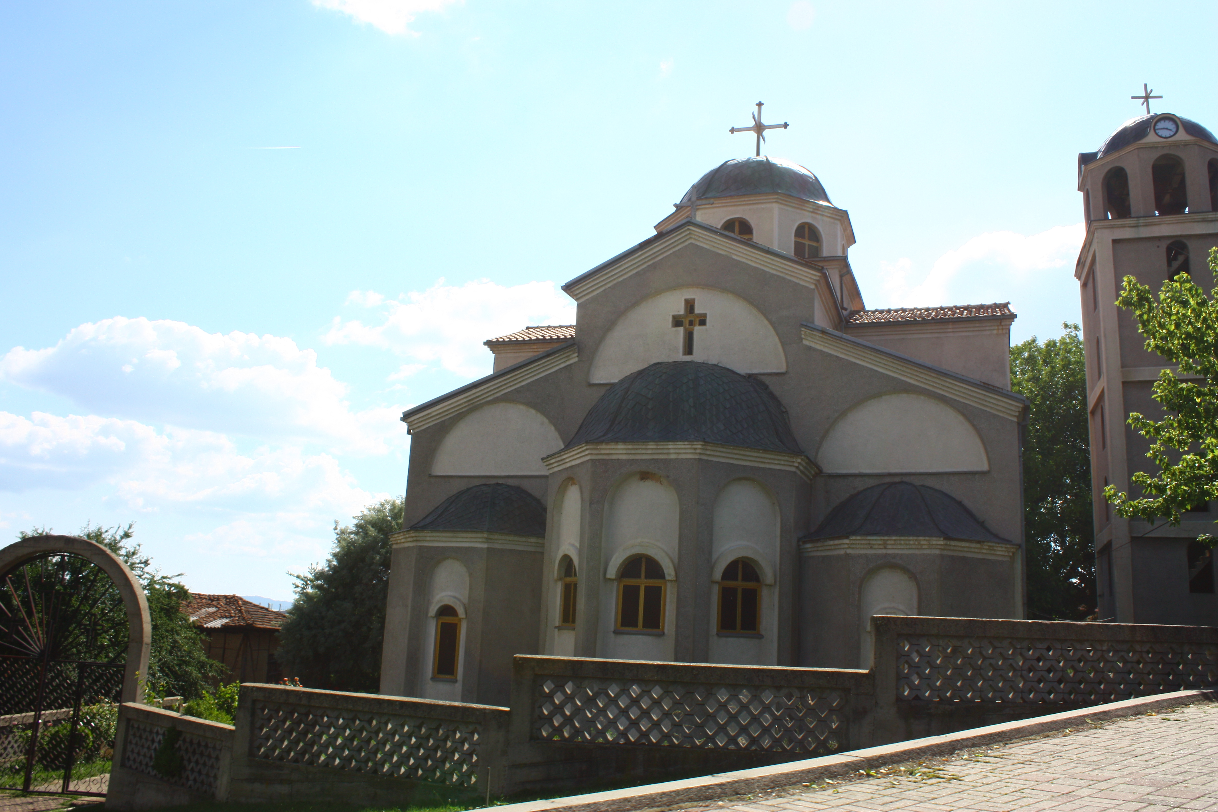 Sts. Peter and Paul Church in Pehčevo, Macedonia This image is uploaded as part of the picture contest Wiki Loves Cultural Heritage in Macedonia 2013. English | македонски | +/−